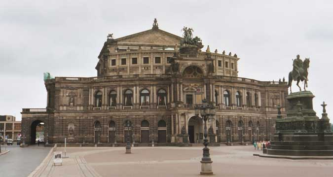 This is the Opera House designed by Semper in Dresden. I took this photo myself in 2003.